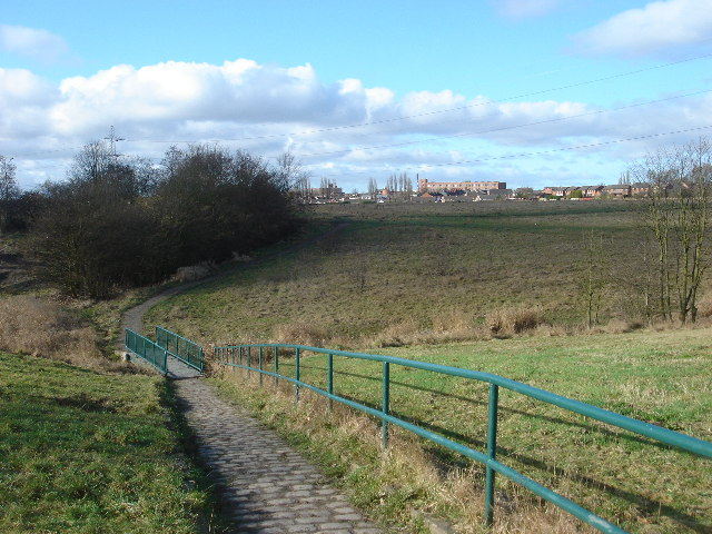 Footbridge on path between Shakerley and Atherton. Bolton Old Road Mill can be seen in the distance, and the chimney of Ena Mill - former cotton mills both now used for other things.